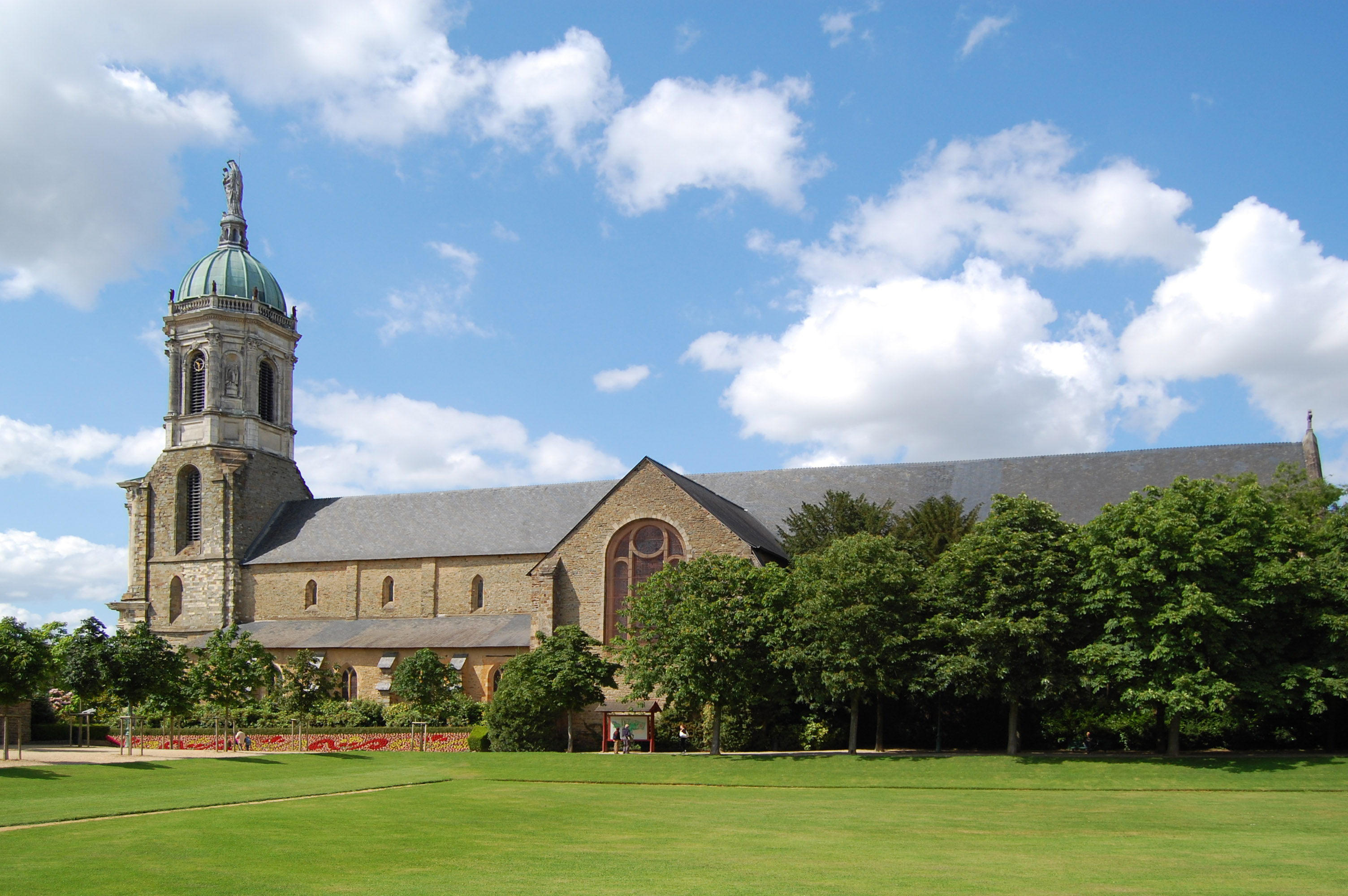 Notre Dame en Saint-Mélaine view from the park of Tabor , Rennes (France)